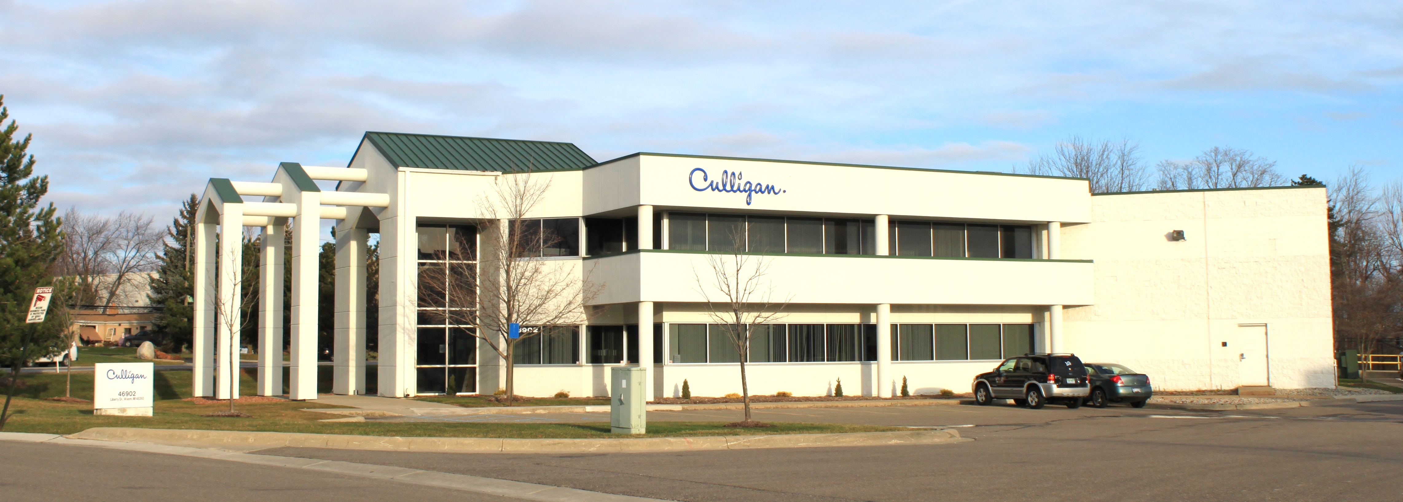 Culligan water treatment dealership offices, 46902 Liberty Drive, Wixom, Michigan.